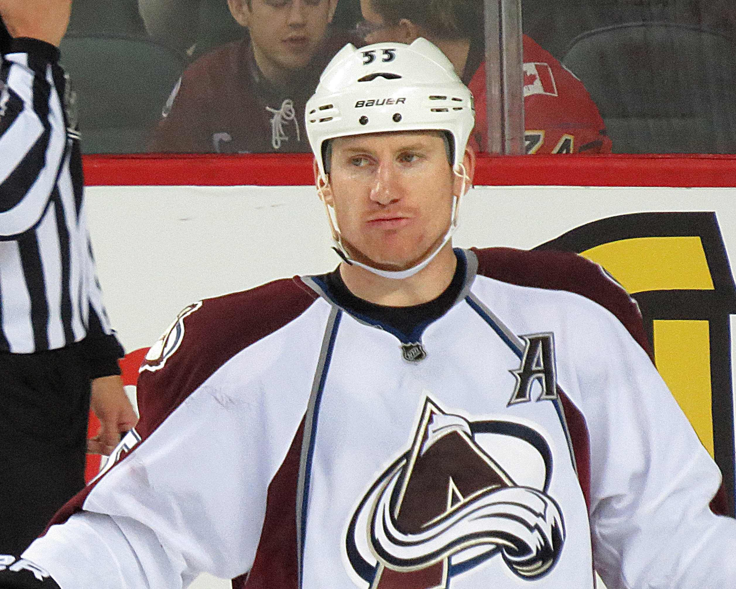 Cody McLeod of the Colorado Avalanche during the 2013–14 season.